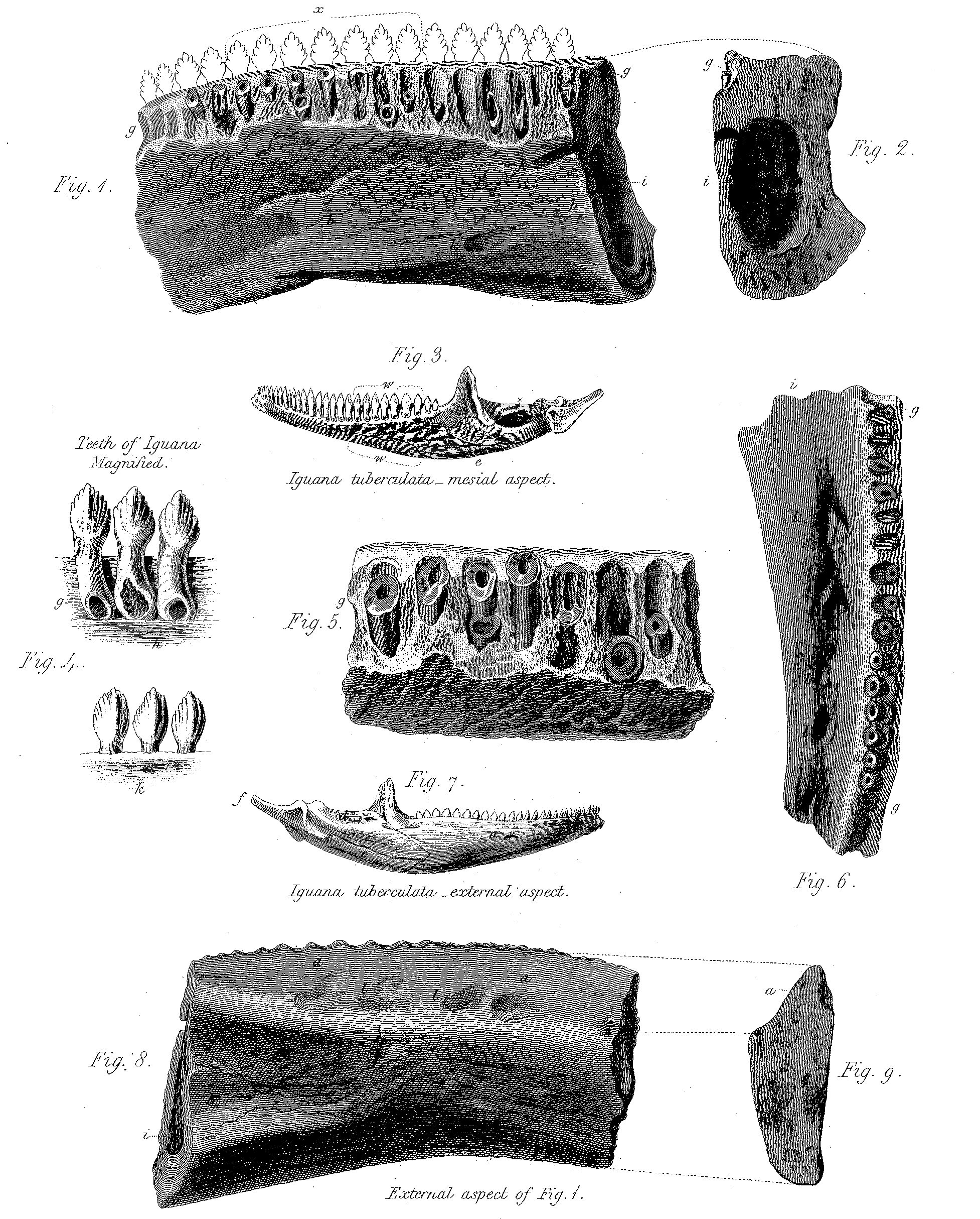 Jaw of Regnsaurus compared to that of an iguana.